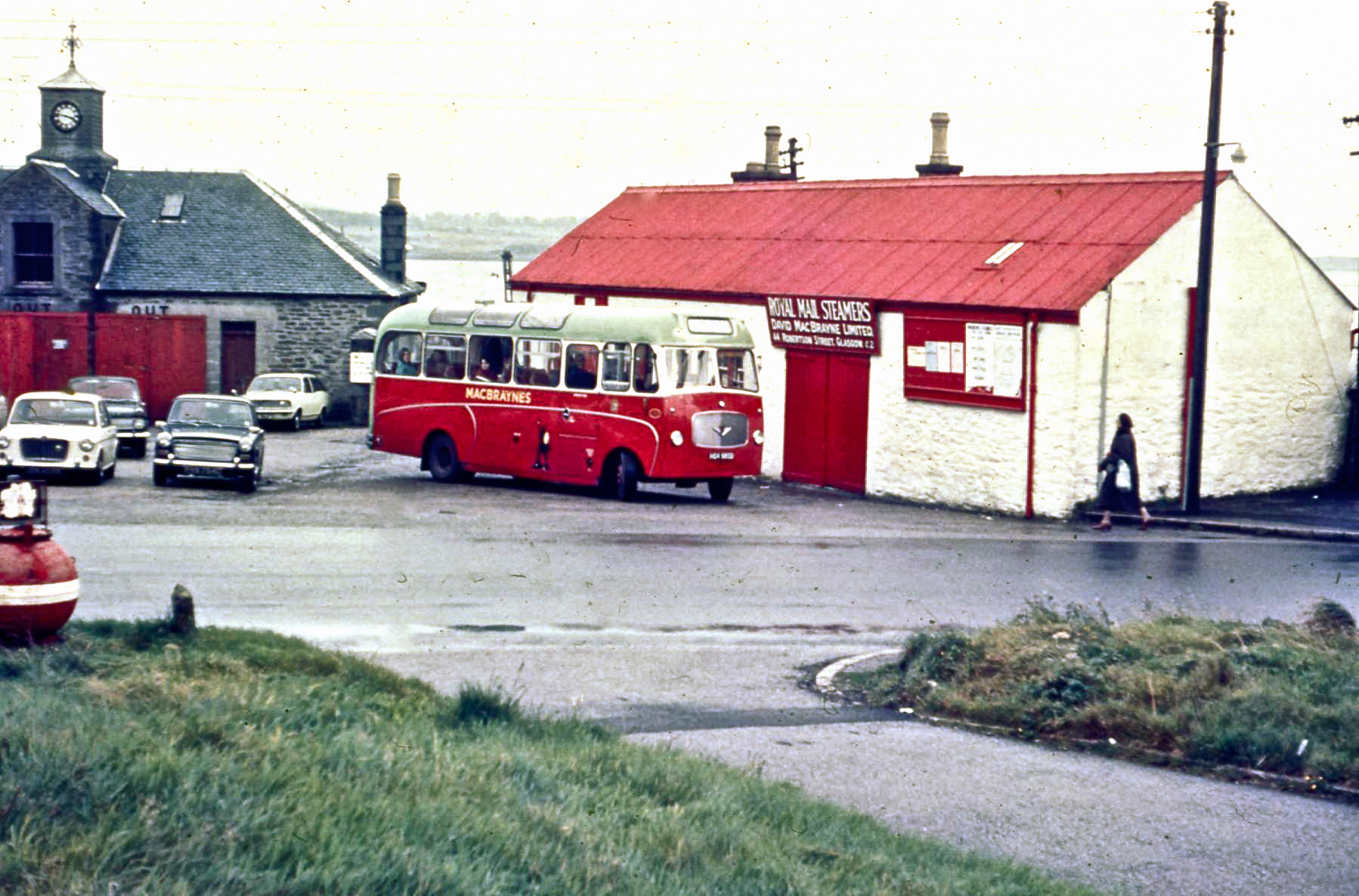 Macbrayne bus at Ardrishaig when they operated in many parts of the west coast and islands of Scotland.